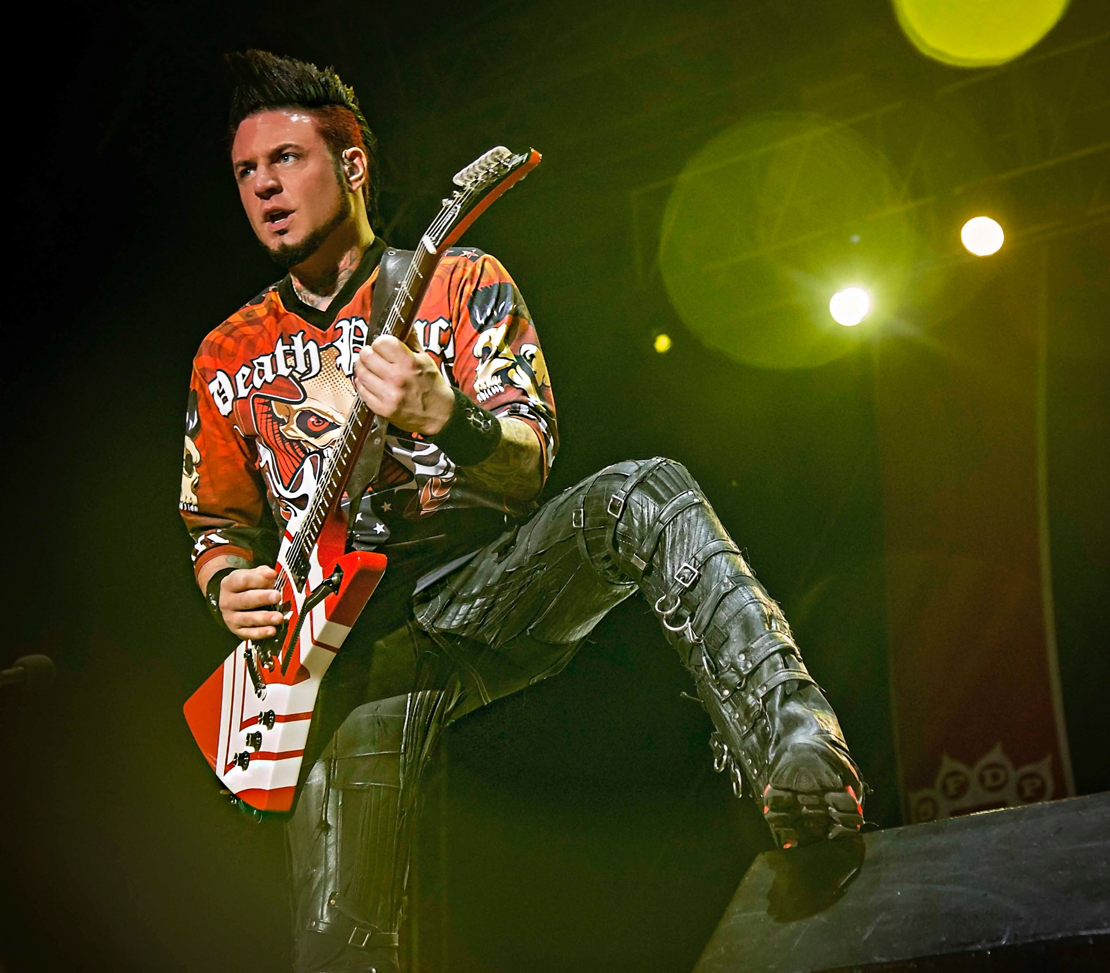 Jason Hook of Five Finger Death Punch playing his Gibson Guitar.